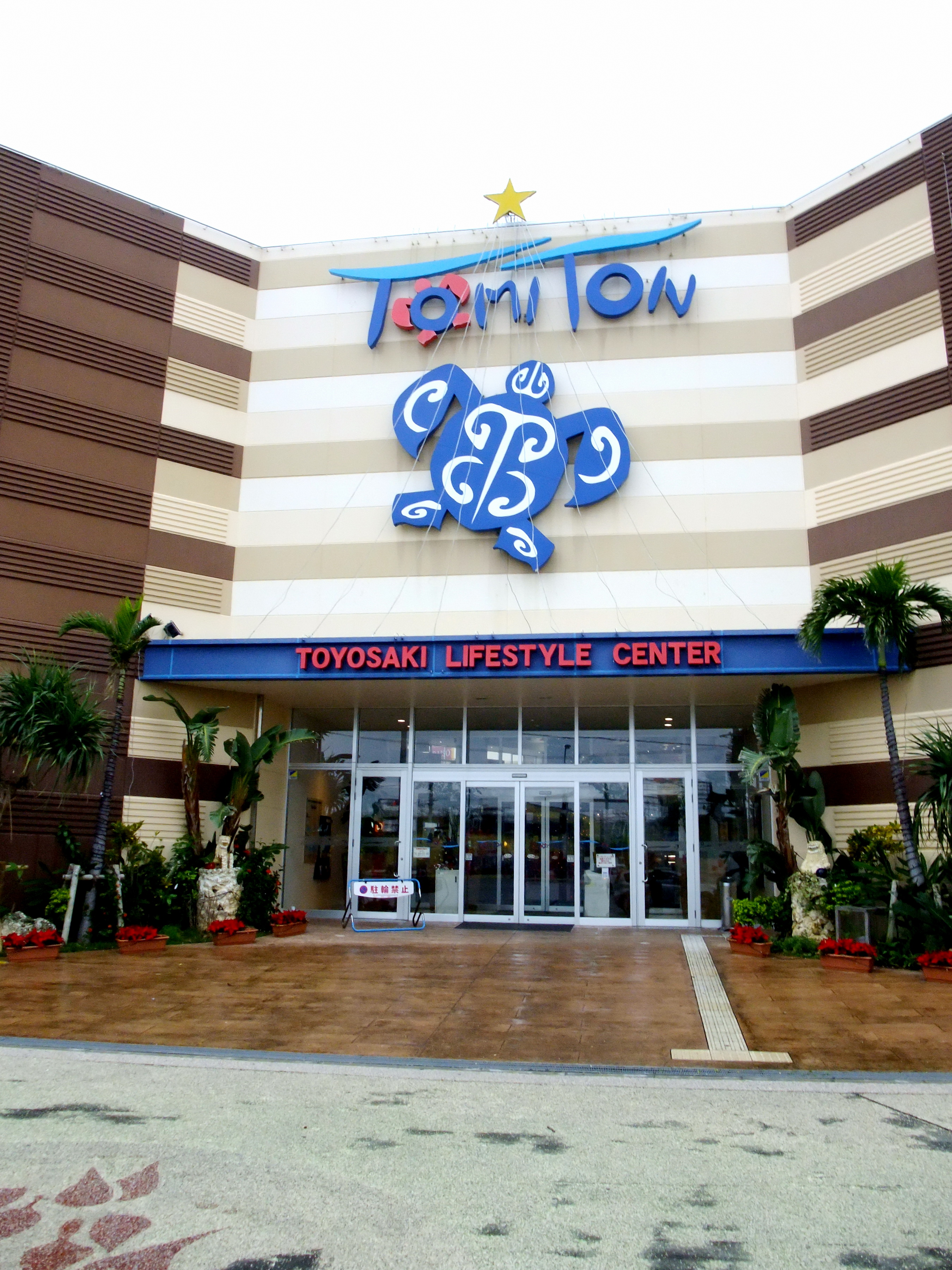 Tomiton, Toyosaki Lifestyle Center in Tomigusuku, Okinawa.